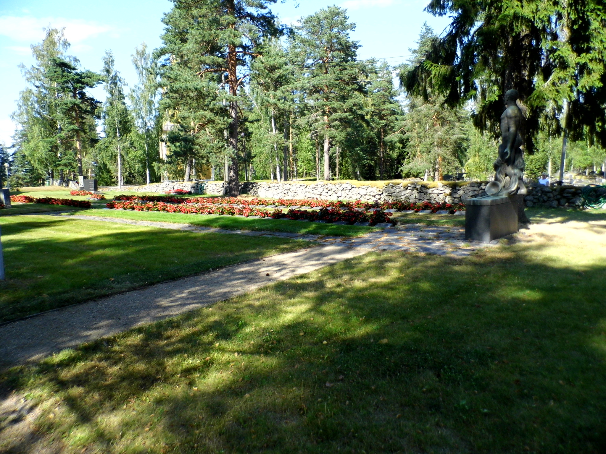 Military cemetary at church in Haukivuori, Finland